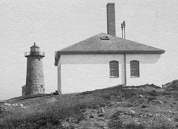 Libby Lisland Lighthouse, ME, USA